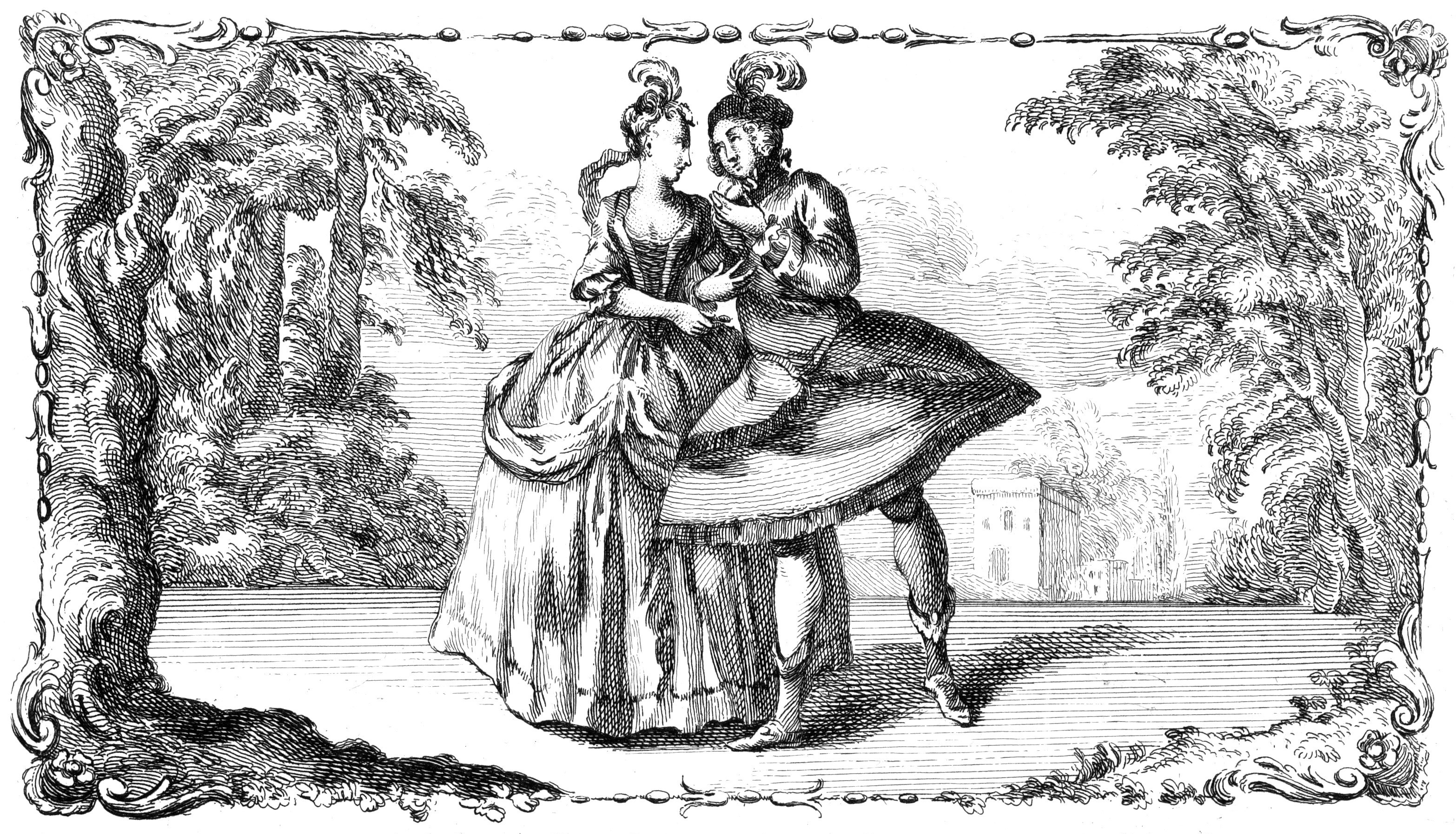 Lampe - The Dragon of Wantley - Moore Coaxing Mauxalinda - "By ye Beer, as brown as Berry"